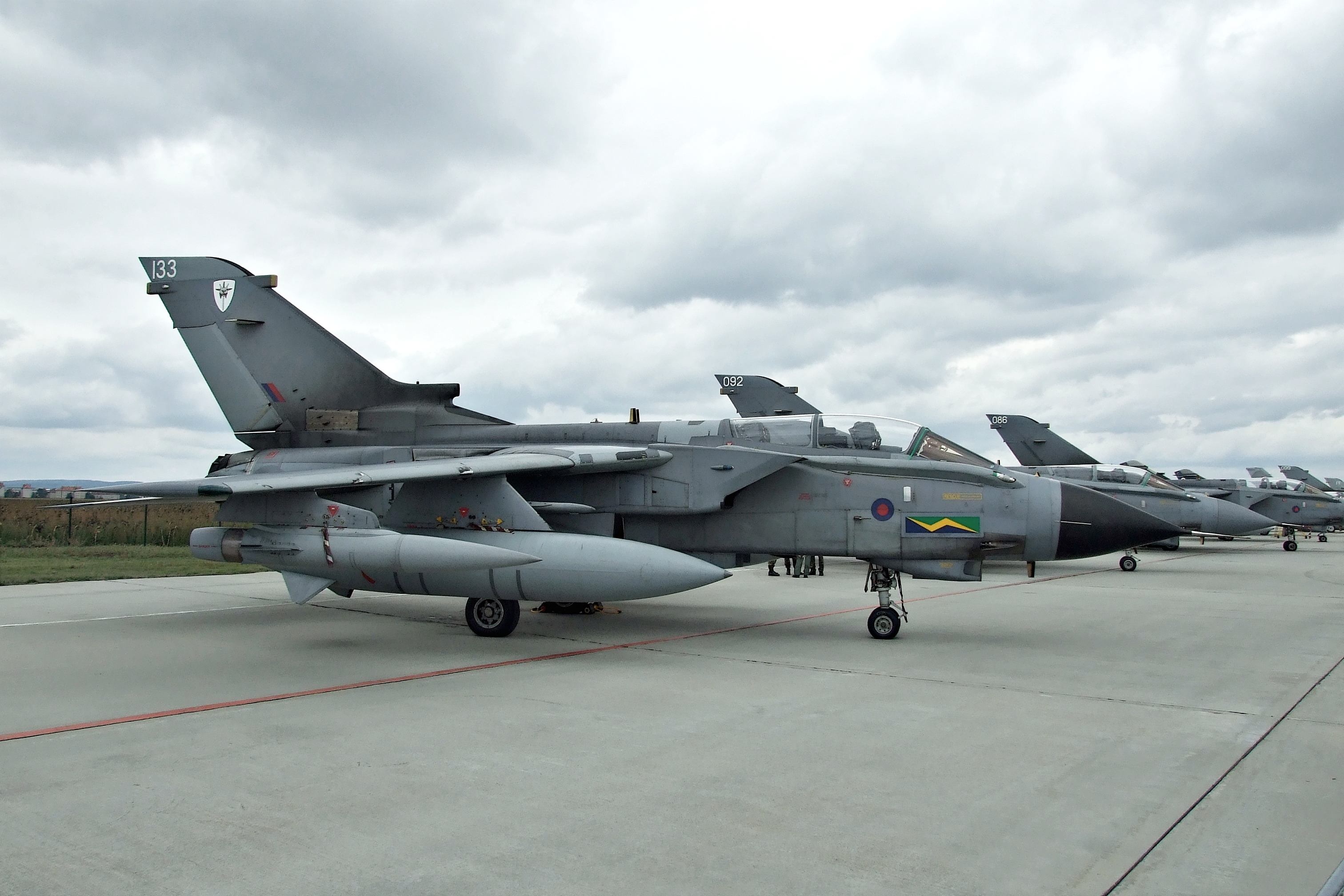 Panavia Tornado (CIAF Air Show 2007)